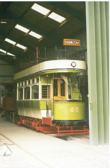 Coatbridge.